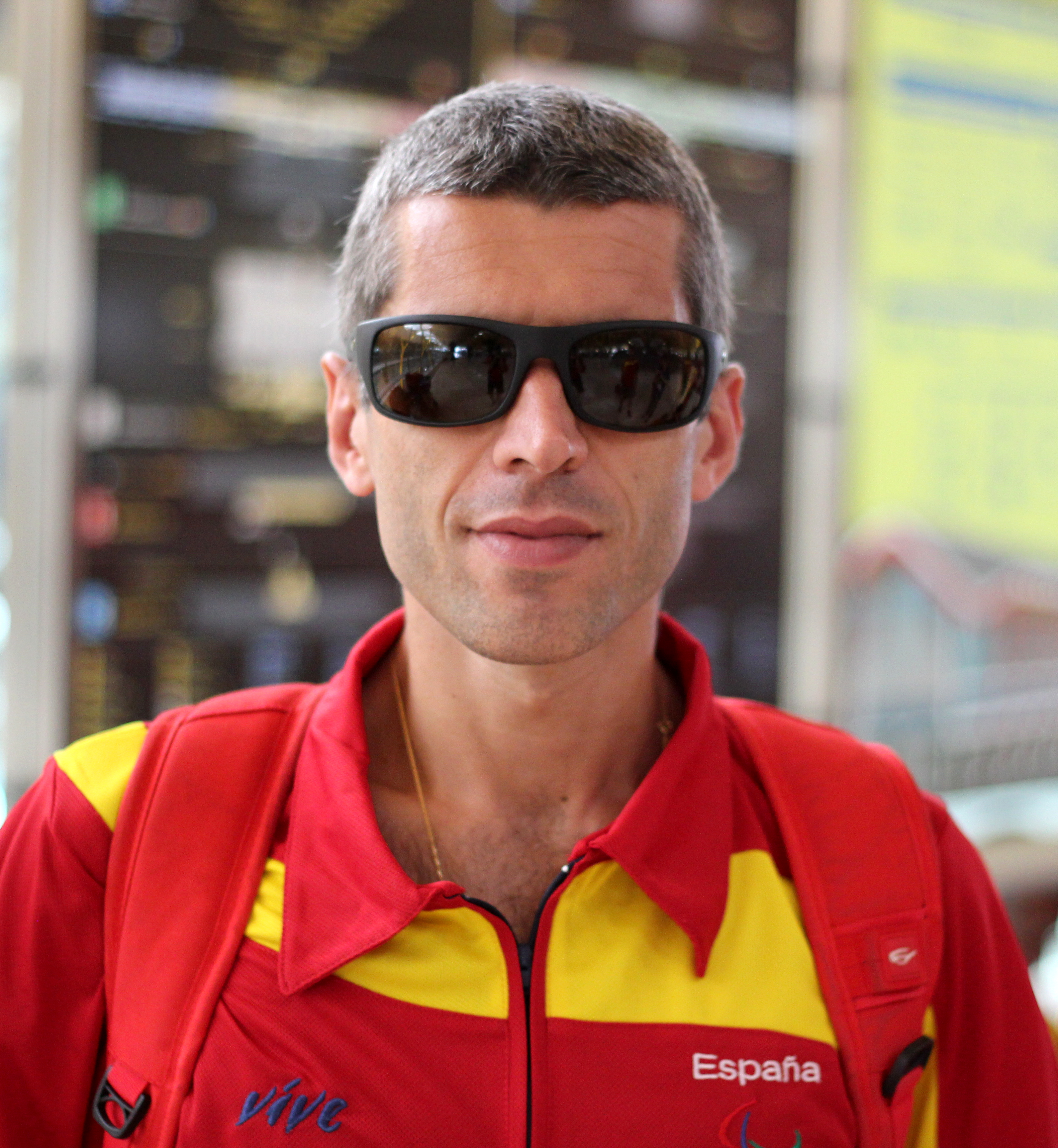 Spanish track and field athlete picture taken at the airport before departure from Madrid to compete at the 2013 IPC Athletics World Championships in Lyon France.